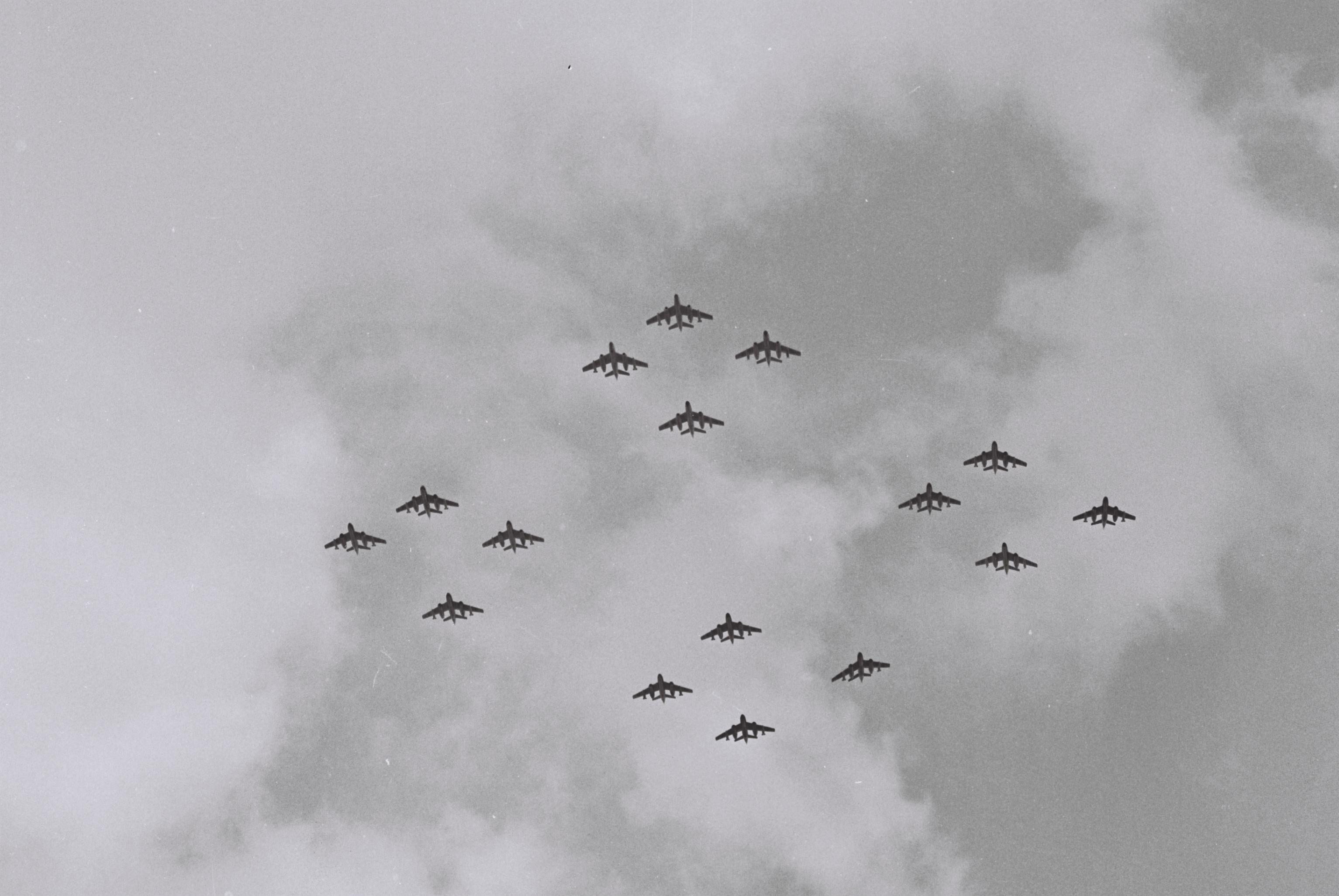 A FLIGHT OF VOUTOUR AIRFORCE JETS DURING THE INDEPENDENCE DAY PARADE, IN BEER SHEVA.